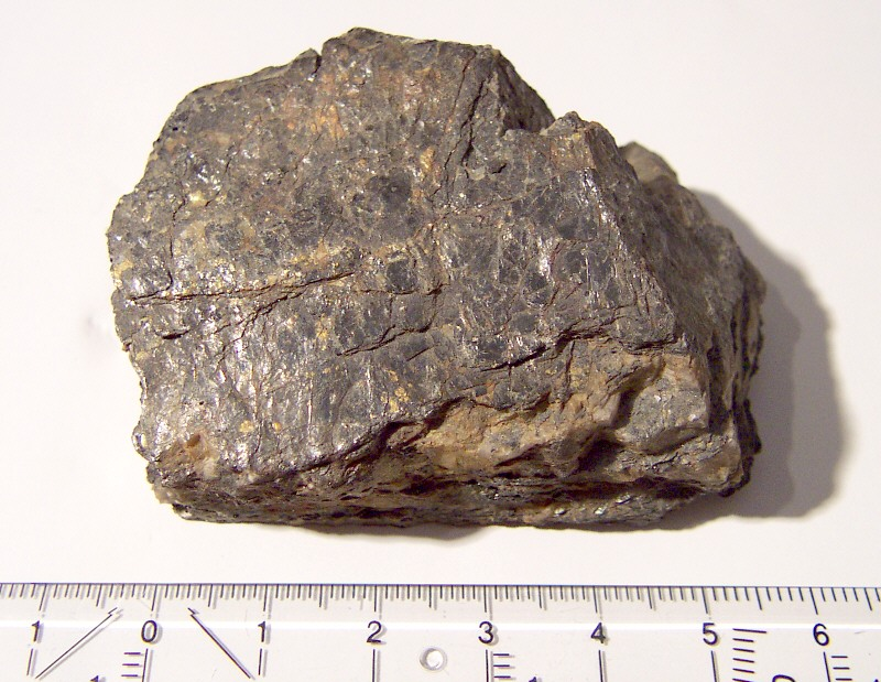 Fergusonite crystals embedded in feldspar and biotite, type locality: Ytterby/Sweden, formula: (Y,Ce,La,Nd)NbO4, ratio RE metals: 4:1:3:2